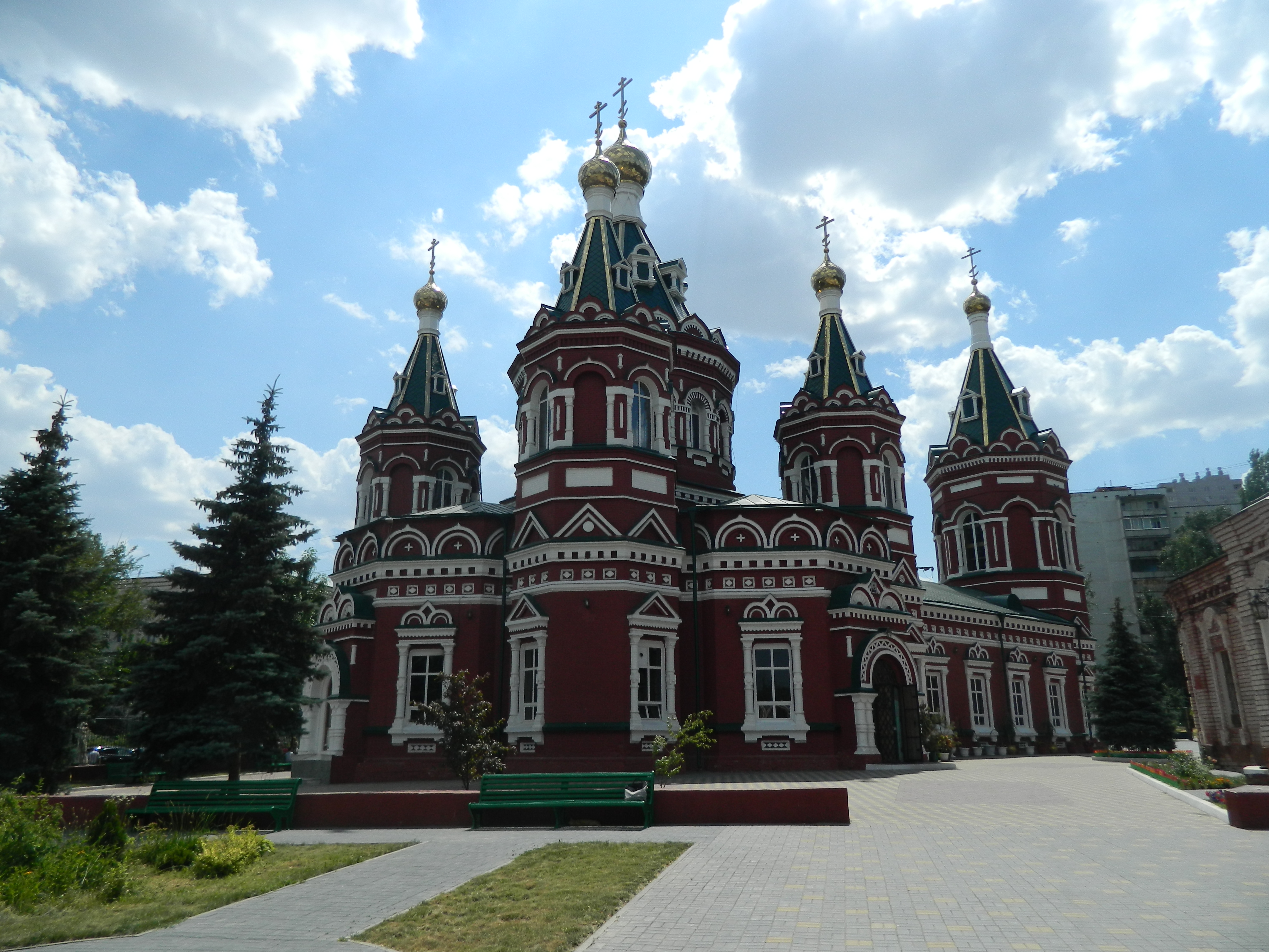 Kazan Cathedral (Kazanskiy Kafedralniy Sobor) in Volgograd, Russia